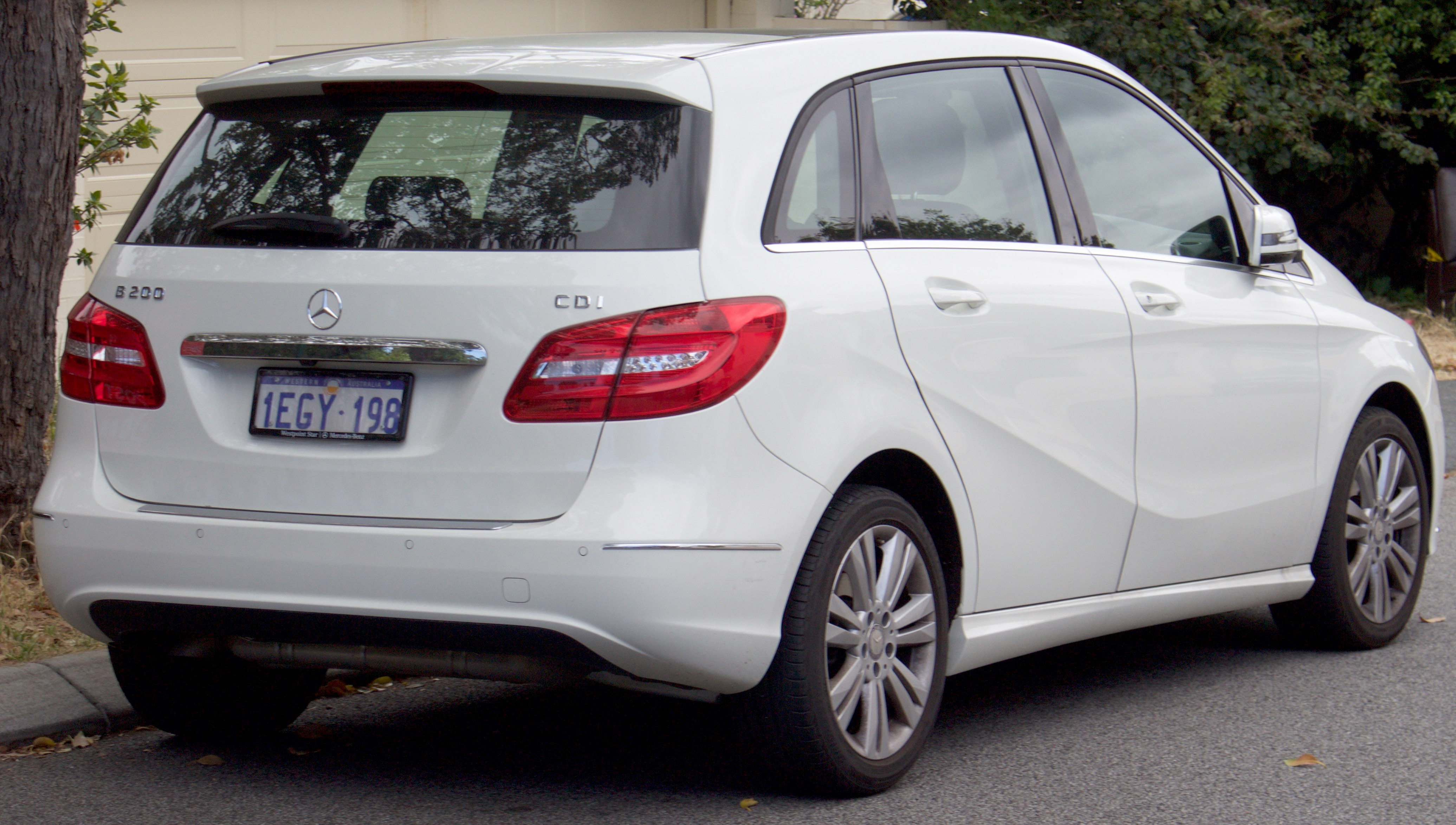 2013 Mercedes-Benz B 200 CDI (W246) hatchback. Photographed in Nedlands, Western Australia, Australia